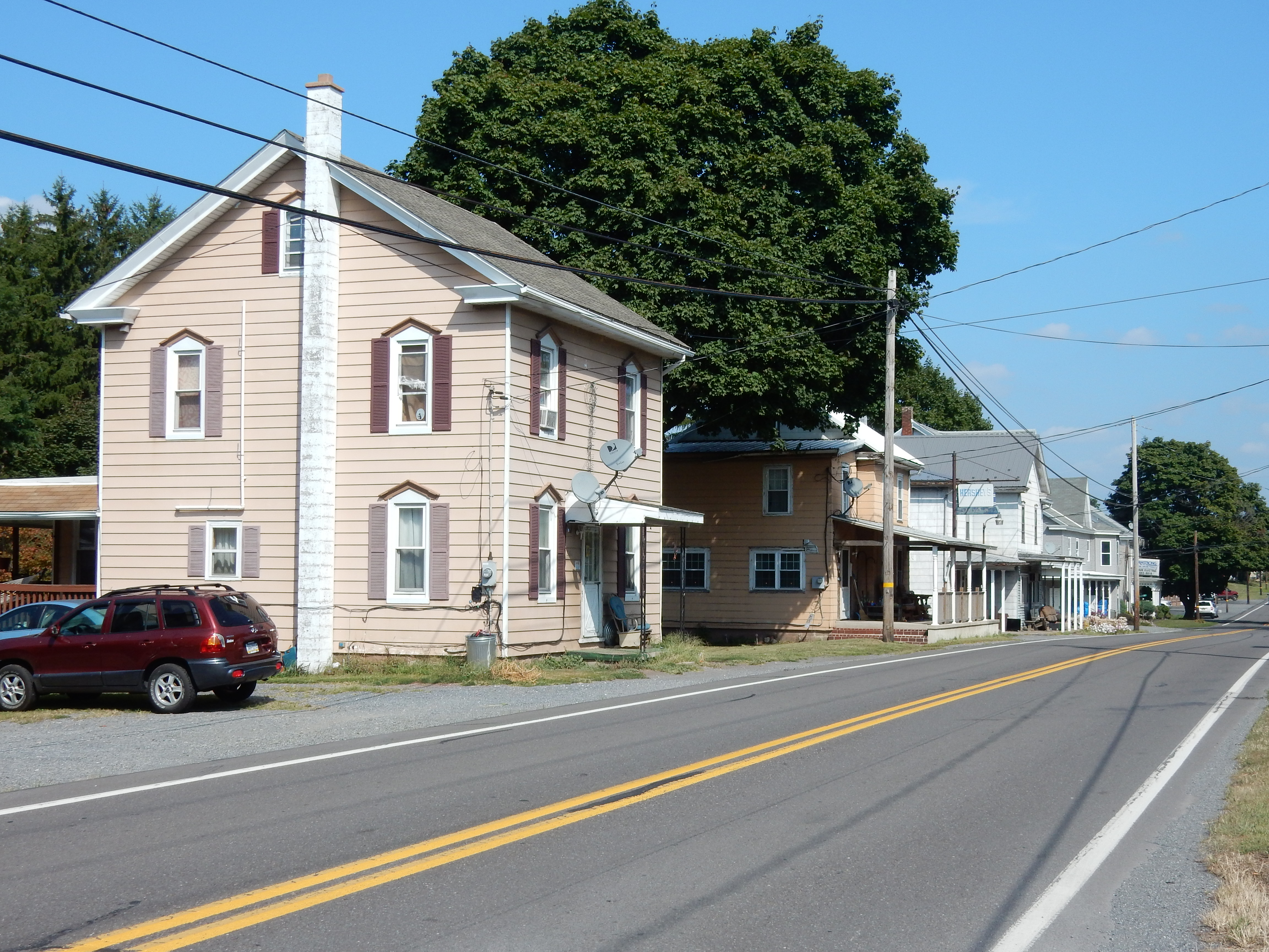 East Main St. (Pennsylvania Route 25), Sacramento, Hubley Township, Schuylkill County, Pennsylvania. Looking east.